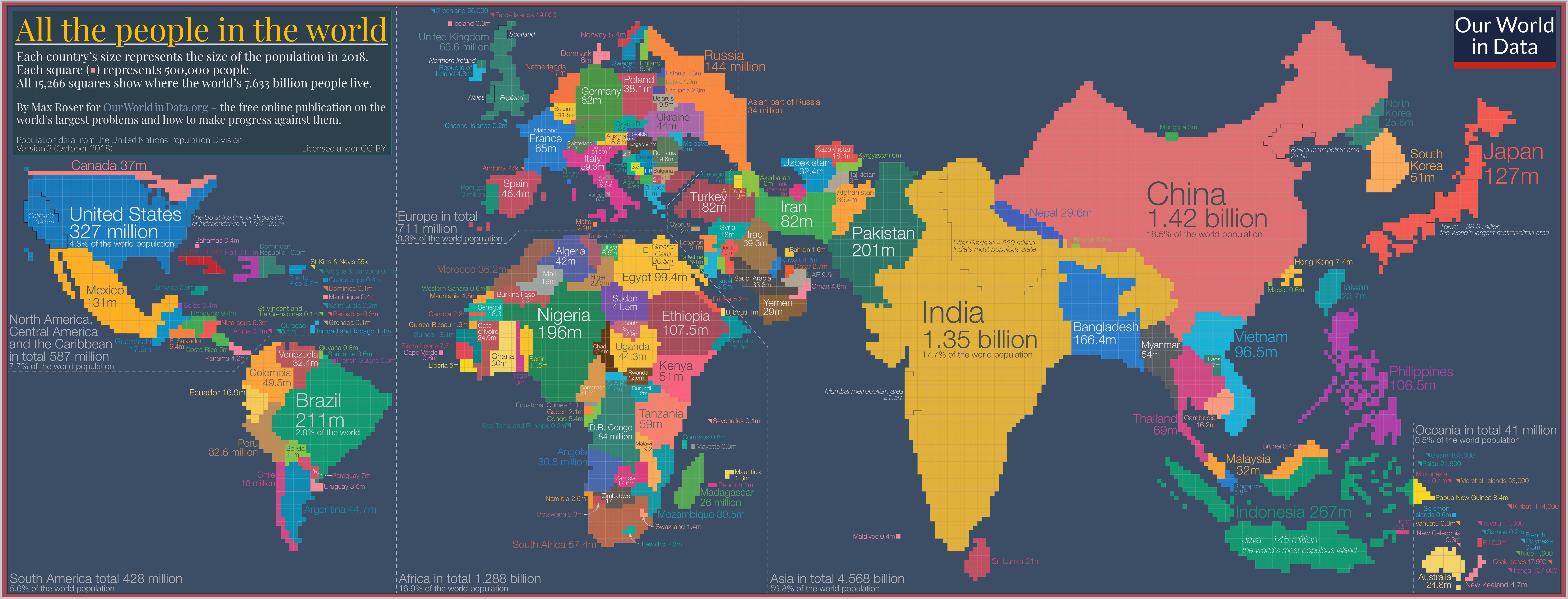 Cartogram showing the distribution of the world population by representing it through 15,266 each representing half a million people.